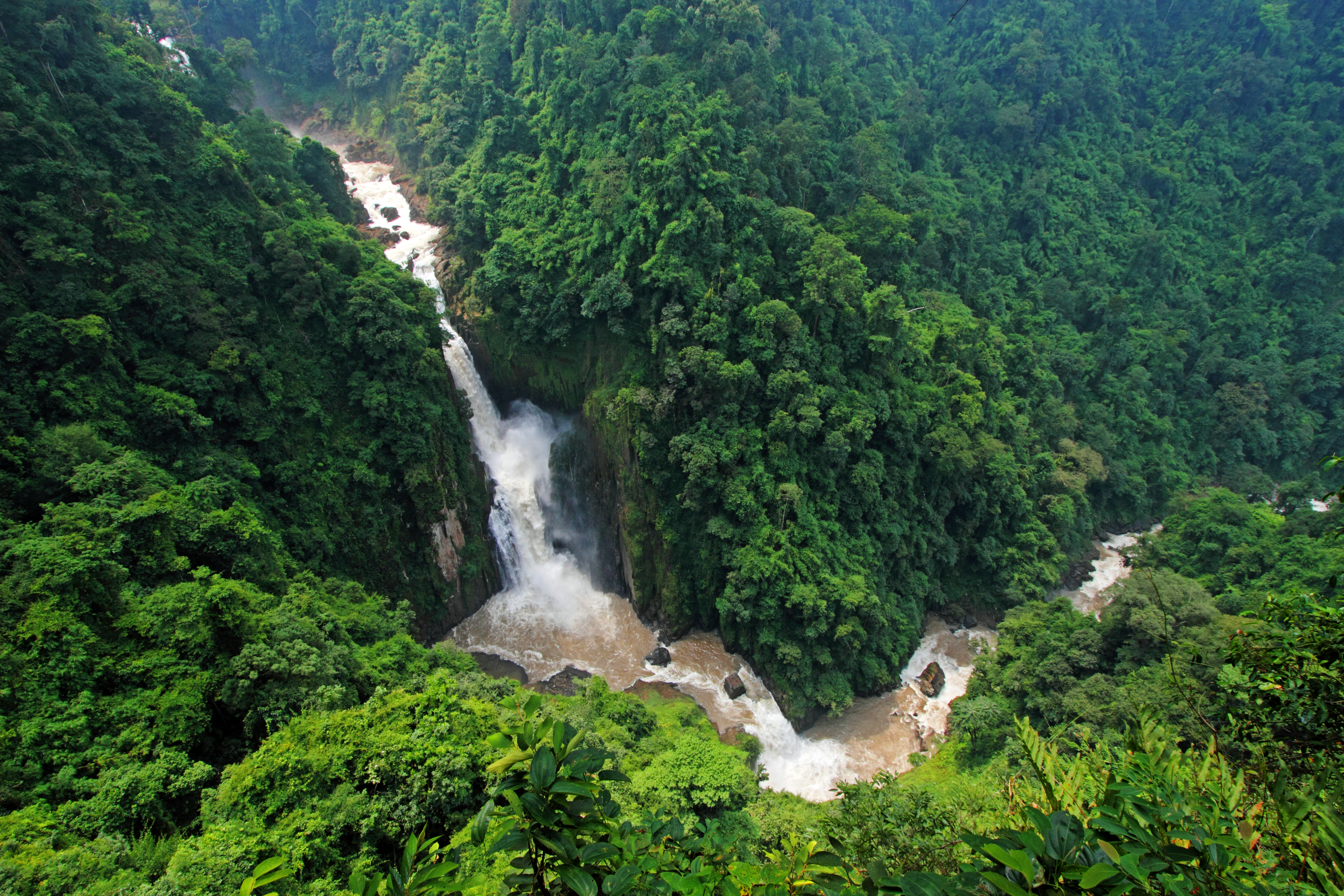 อุทยานแห่งชาติเขาใหญ่